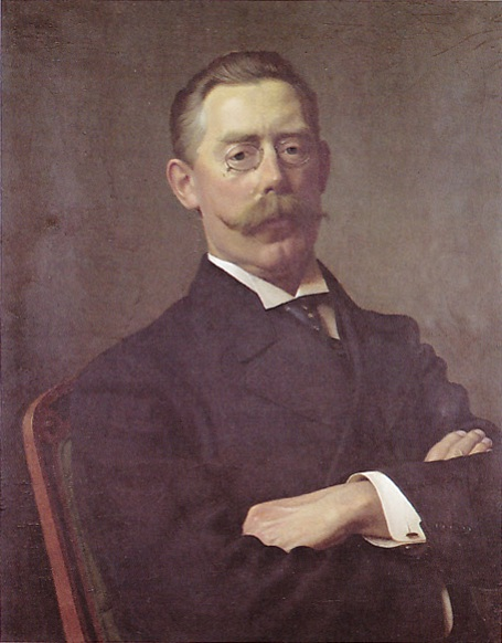 Danish industrialist Ditlev Lauritzen (1859-1935), painted by Frederik Vermehren.